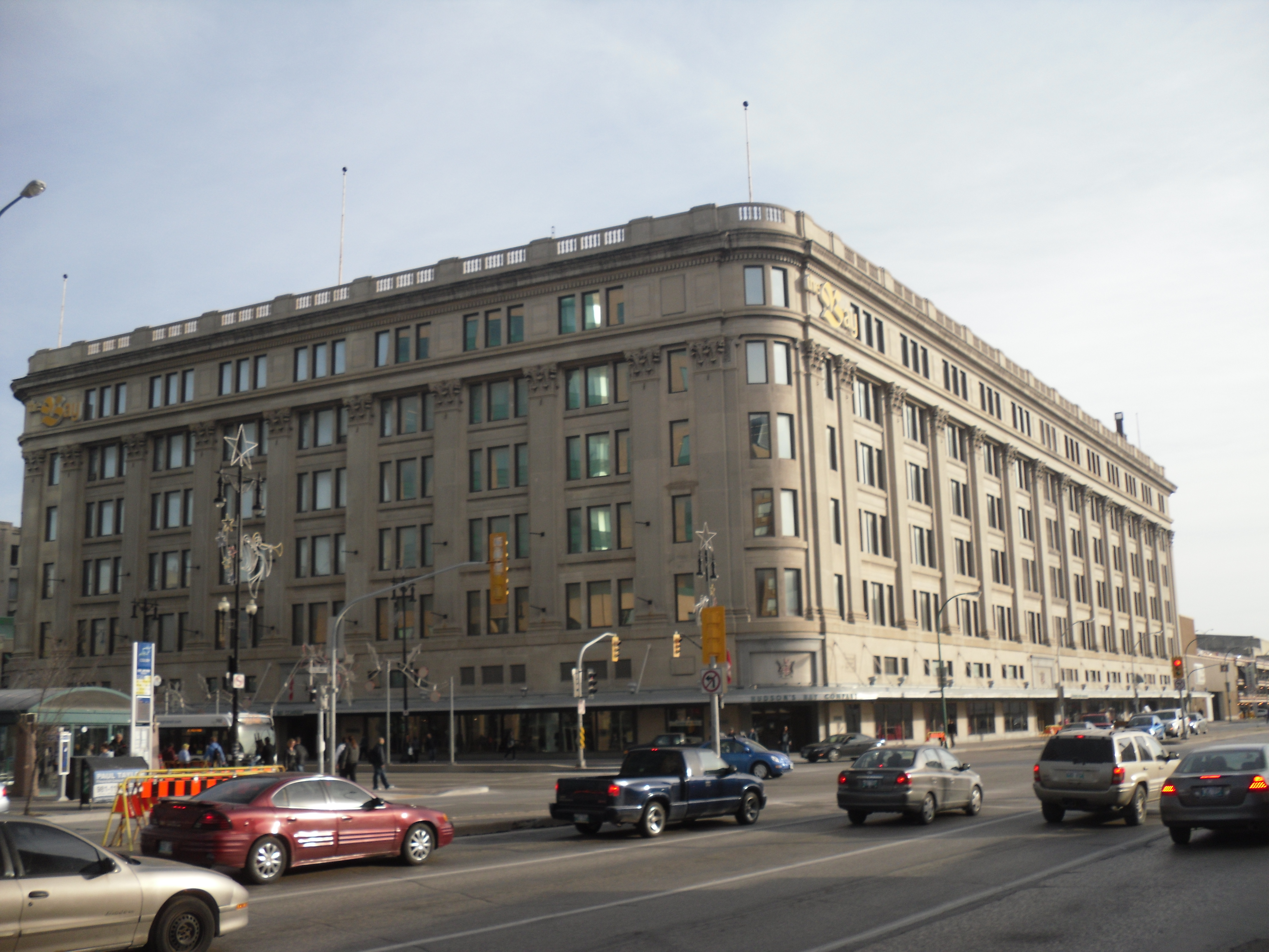 The Hudson's Bay Company building in Winnipeg, constructed on Portage Avenue in the 1926. Two million feet of lumber, 100,000 tons of concrete, and 125,000 cubic feet of Tyndall limestone went into its construction. At the time, the structure was the largest reinforced concrete building in Canada with a gross area of fifteen acres (over six ha.) of floor space.